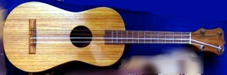 Leona.